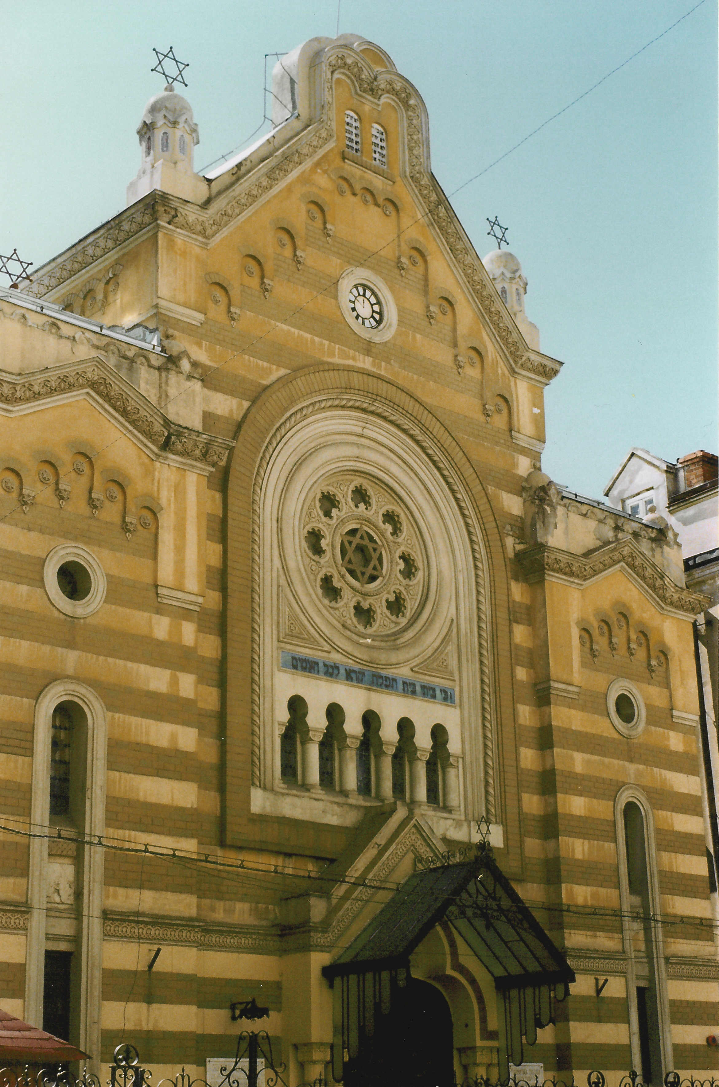 Museum of History of the Jewish Community (or simply Jewish Museum, or other variants), Str. Mămulari Nr. 3, Bucharest, Romania; formerly Templul Unirea Sfântă (United Holy Temple).